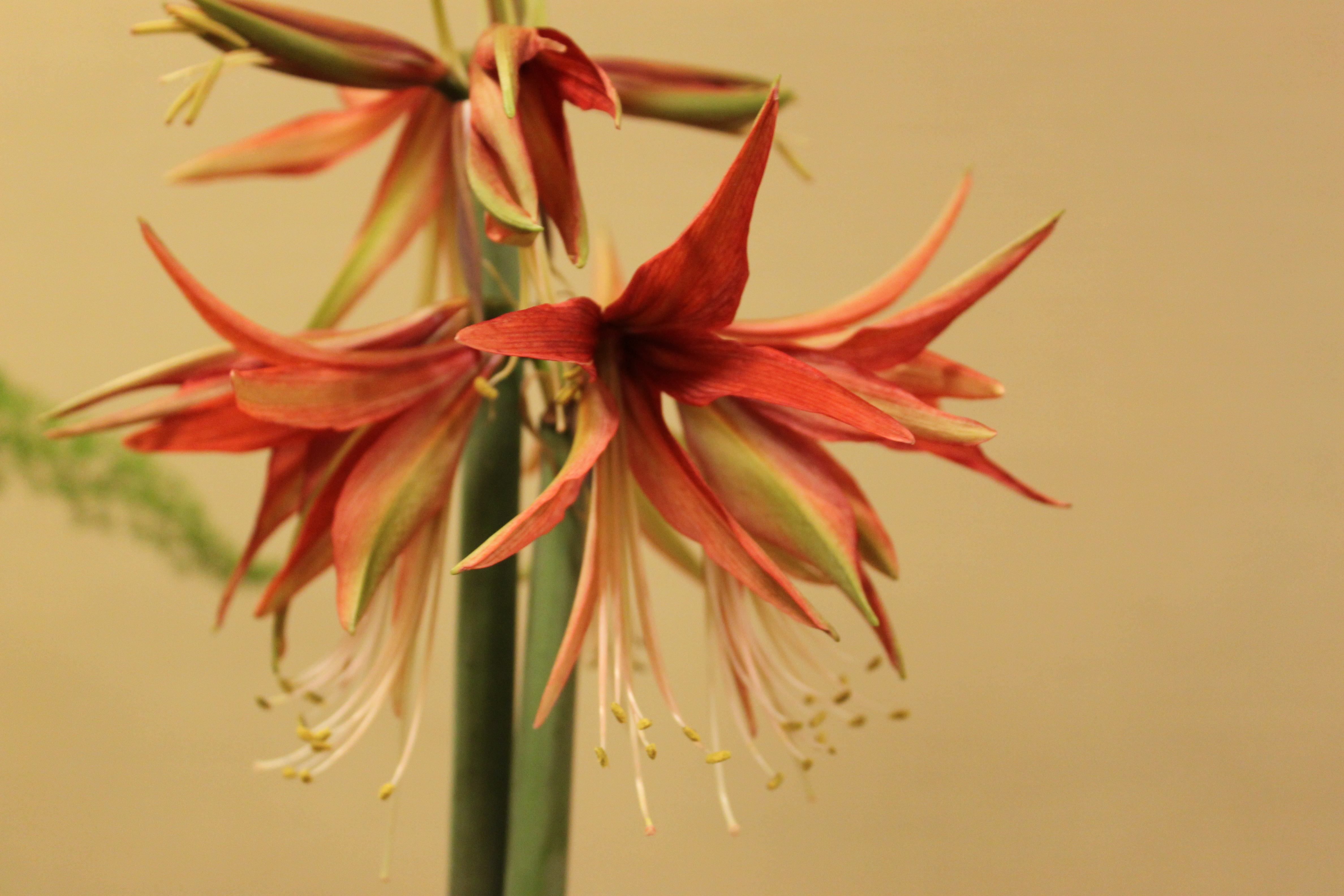 Hippeastrum cybister en flowers taken at the 2010 New England Flower show in Boston, Massachusetts.